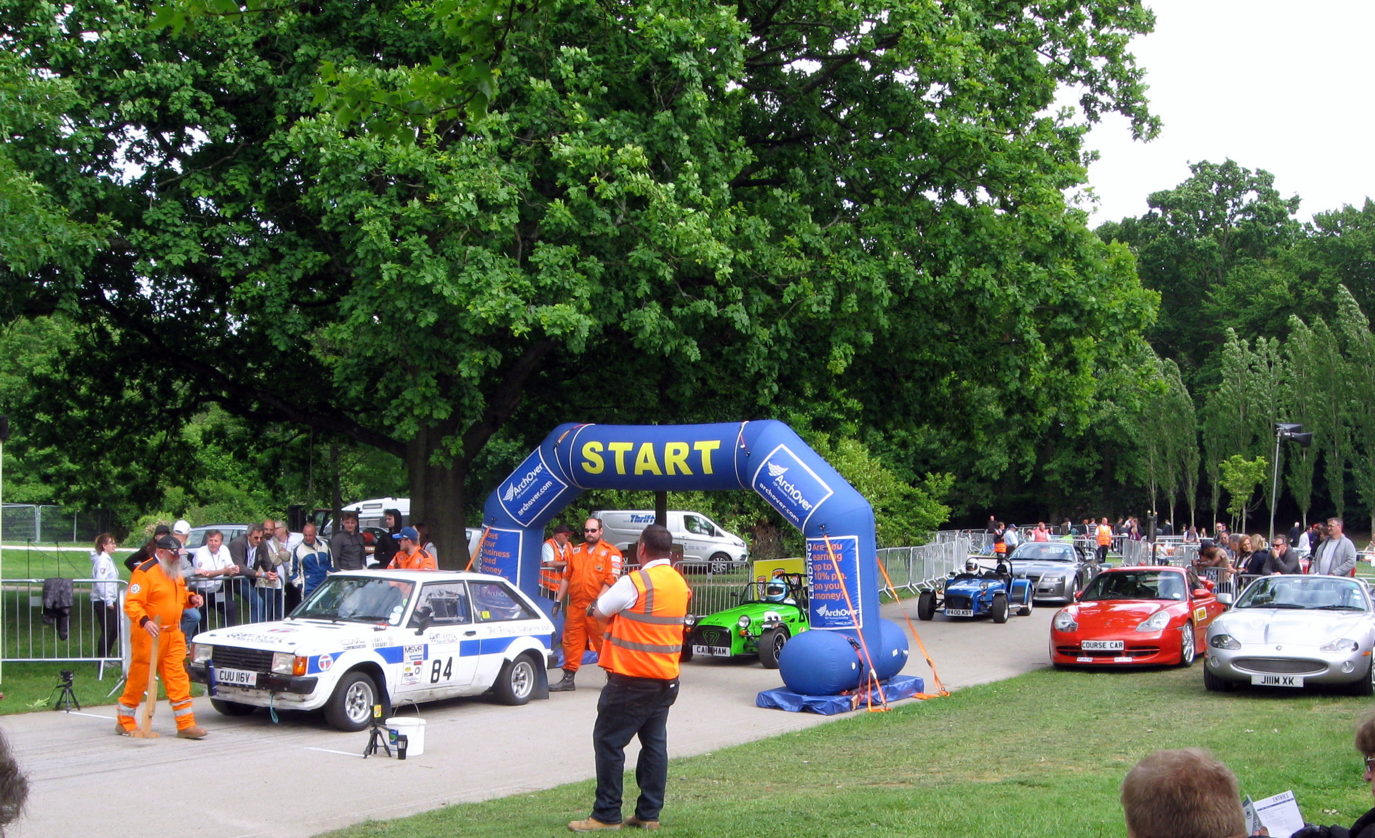 Start line at Crystal Palace motorsport event 2019